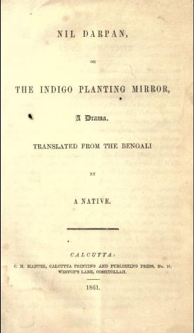 Front page of the play Nil Darpan by Dinabandhu Mitra, English translation, printed 1861